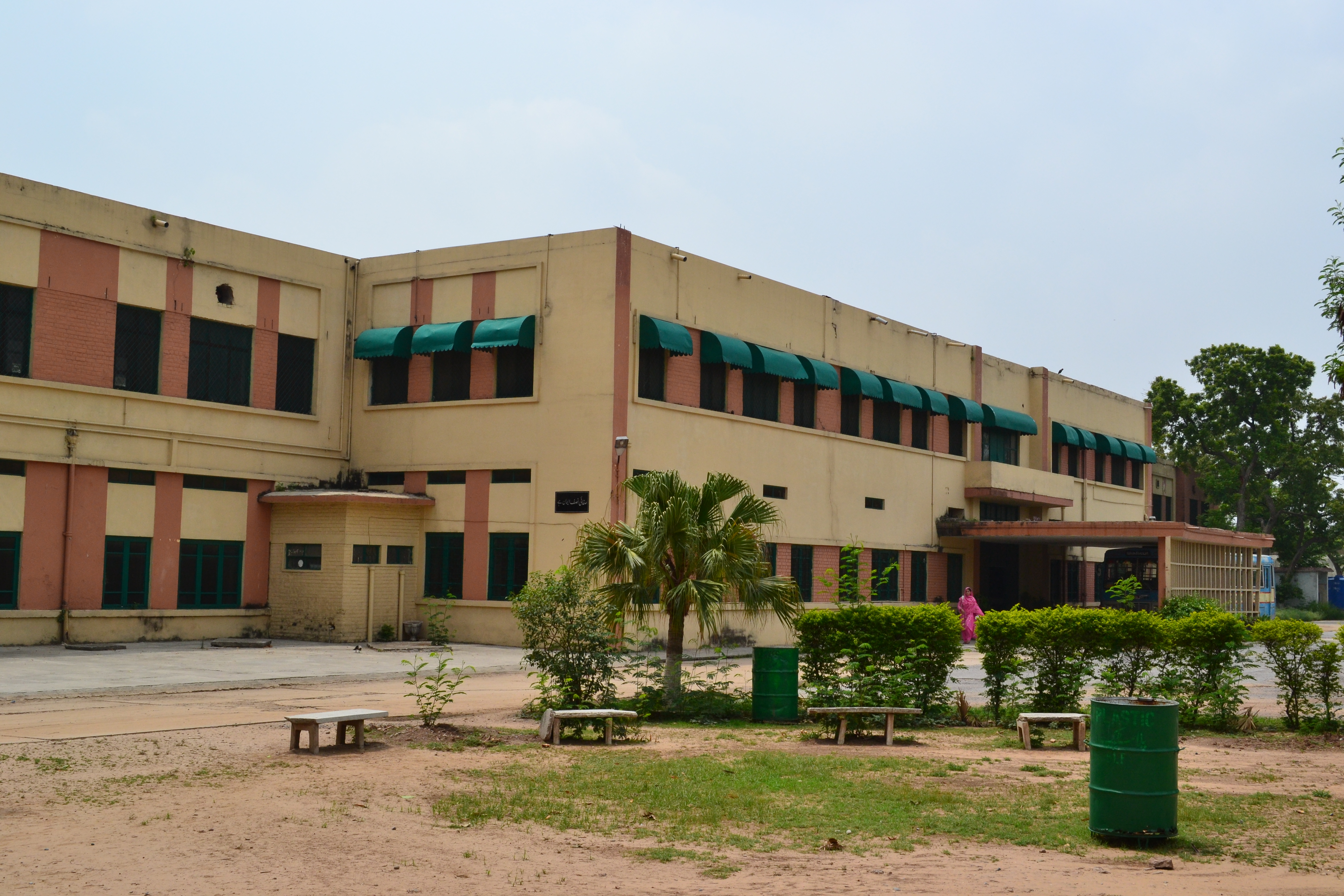 Vaqar un Nisa College